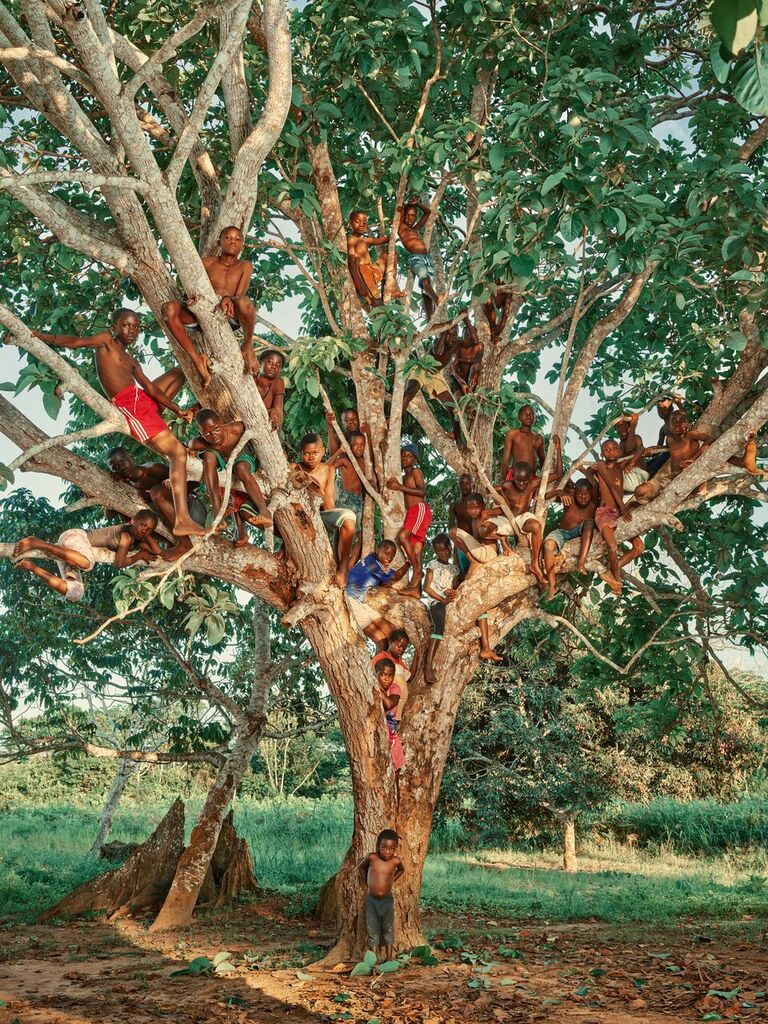 This is a photograph taken by Pieter Henket in the Odzala Kokoua National Park by Pieter Henket. It was published in the book Congo Tales, which came out on Random House / Prestel in November, 2018.